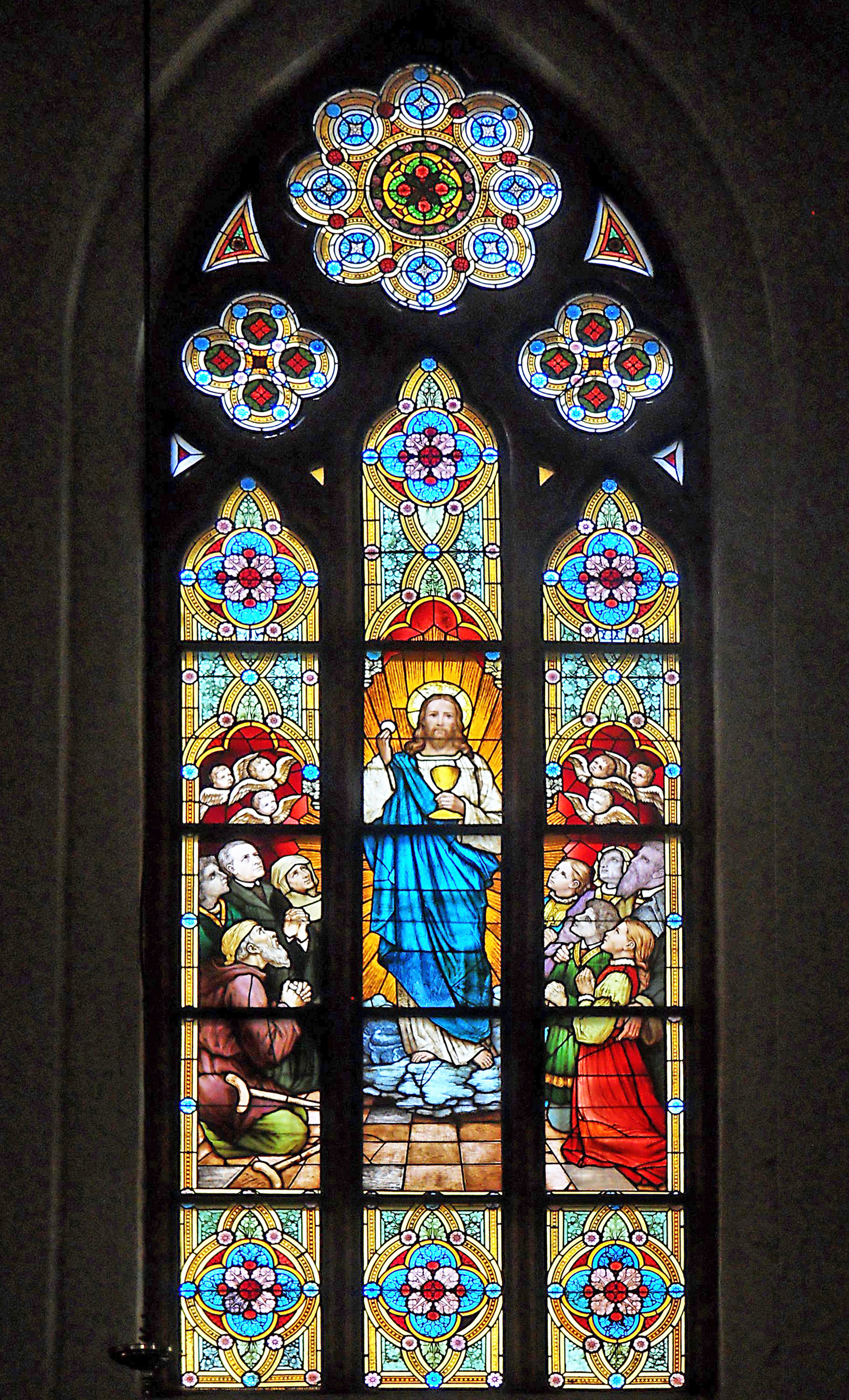 Left Main Window in the "Frauenkirche" church in Grimma (Germany-Saxony)